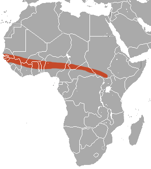 Fox's Shrew (Crocidura foxi) range